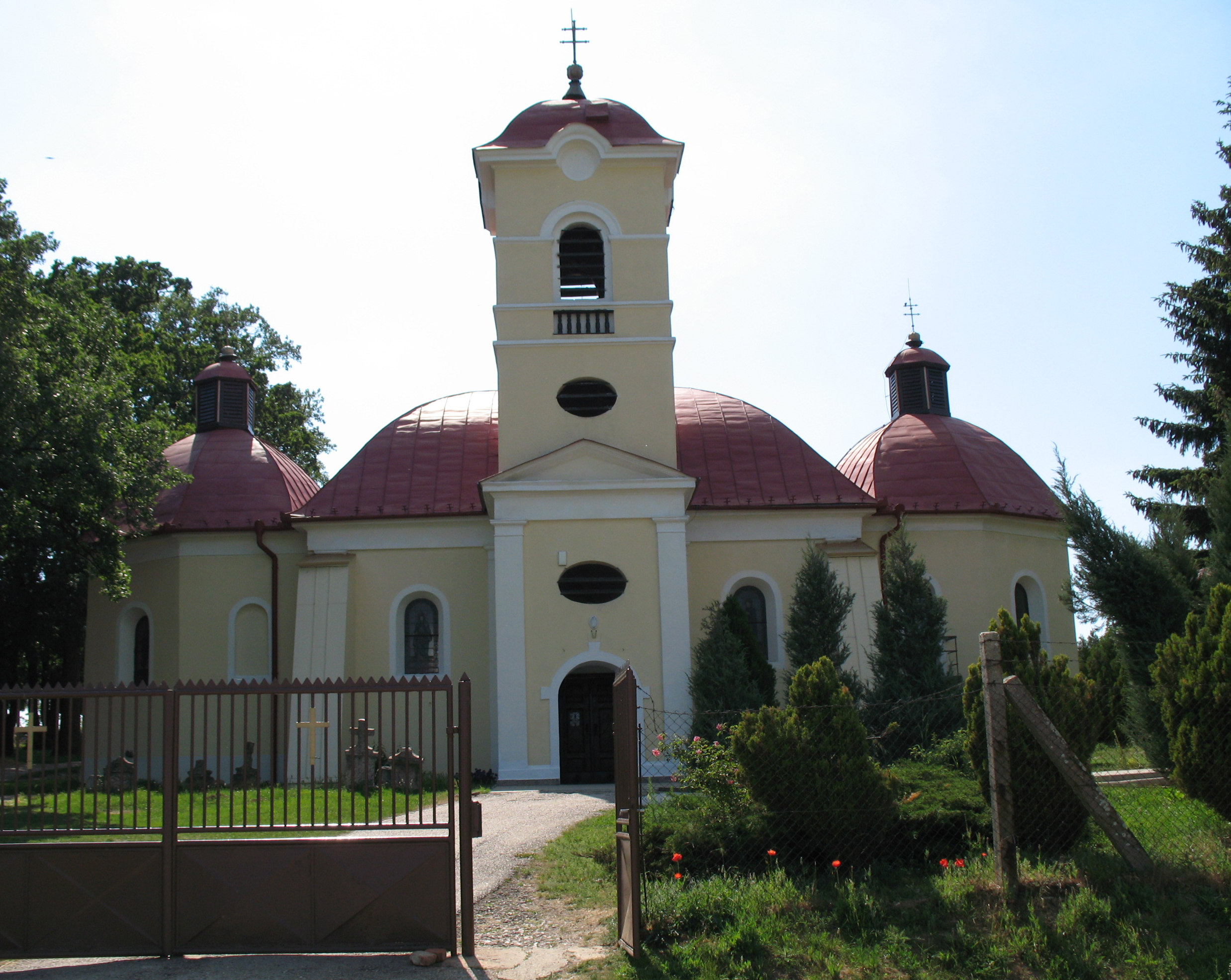 Church of Paňa